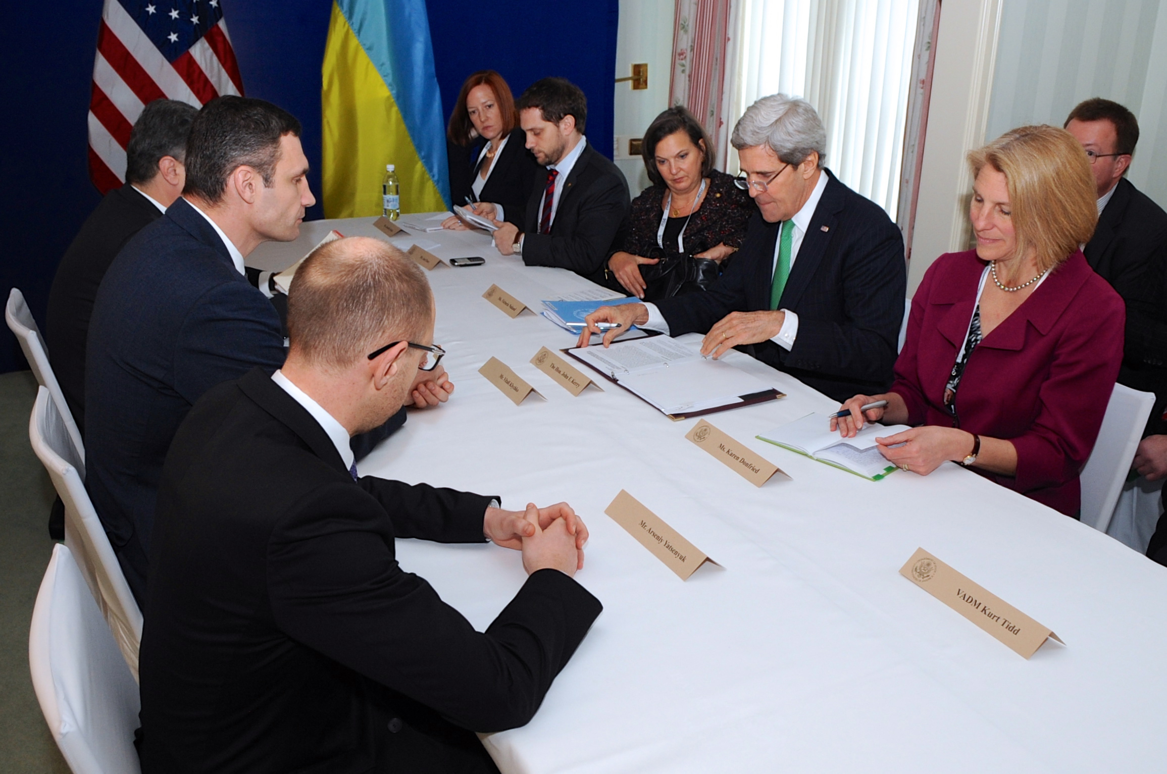 U.S. Secretary of State John Kerry and his team sit across from Petro Poroshenko of the Euromaidan Movement, Vitali Klychko of the UDAR Party, and Arseniy Yatsenyuk of the Fatherland Party at the outset of a meeting with the Ukrainian opposition leaders on the sidelines of the Munich Security Conference in Munich, Germany, on February 1, 2014. [State Department photo / Public Domain]